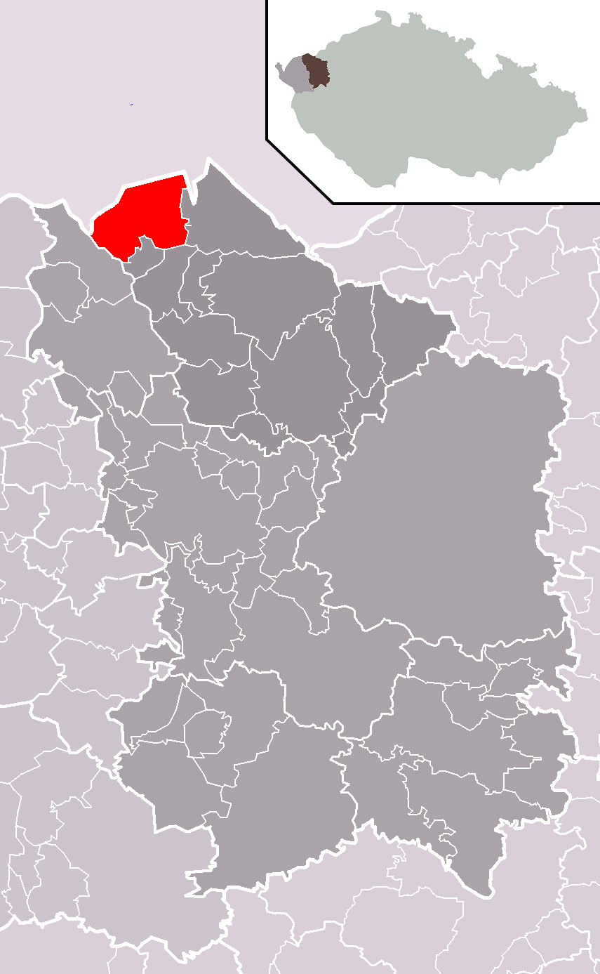 Location of Potůčky municipality within Karlovy Vary District and administrative area of Ostrov as a Municipality with Extended Competence.